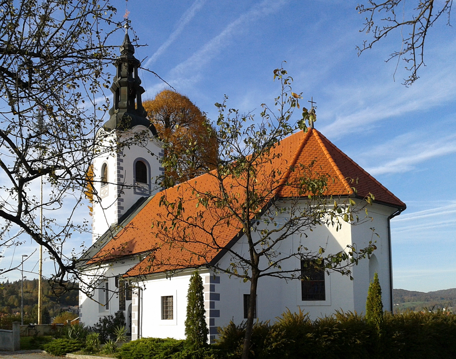 St. Michael's Church, Grosuplje (southeastern Slovenia). The former parish church was originally built in the 13th century and redesigned in the Baroque style in 1662.